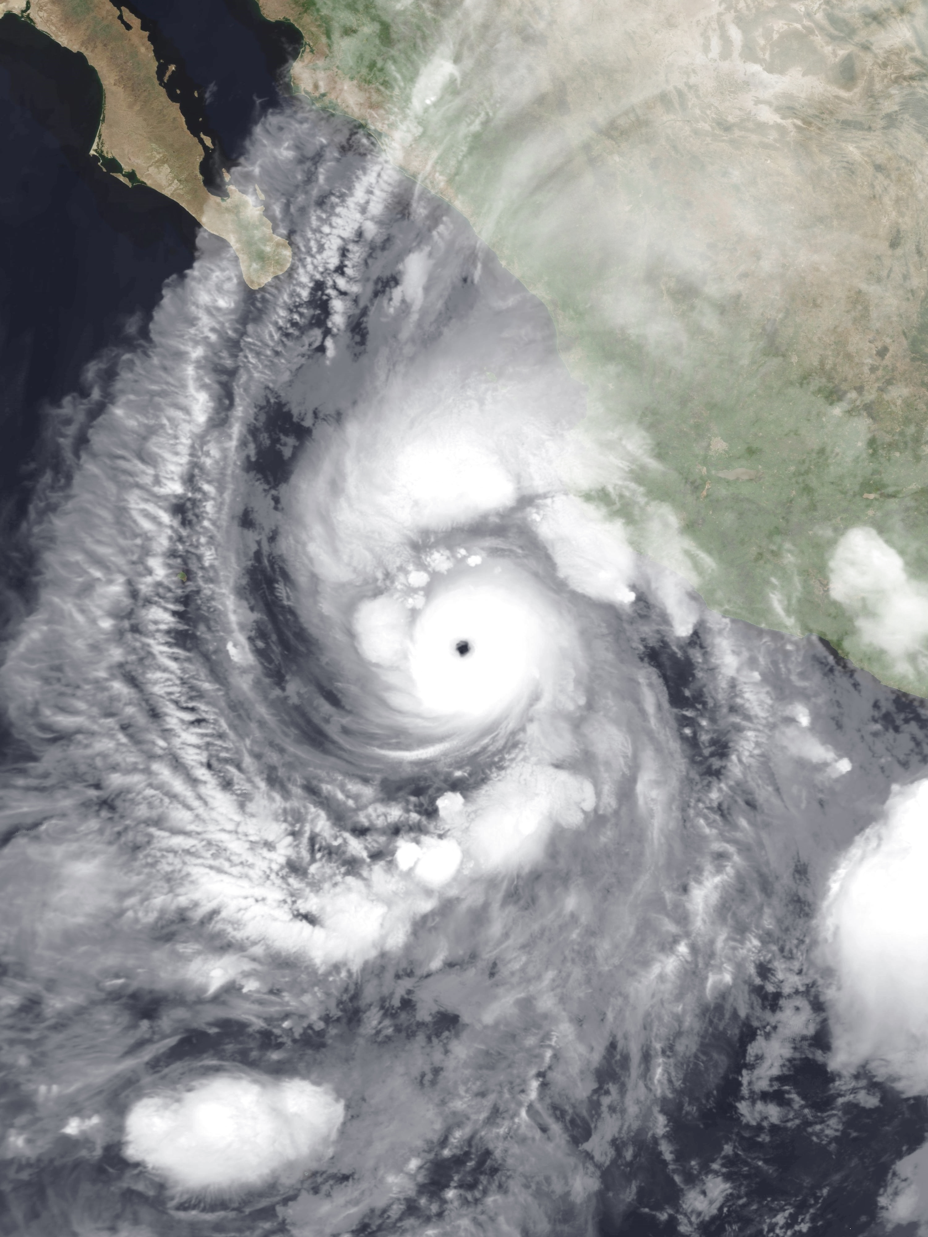 Hurricane Willa on October 22, 2018